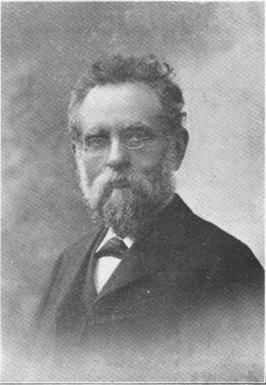 Isaac Leopold Rice, (chess player)